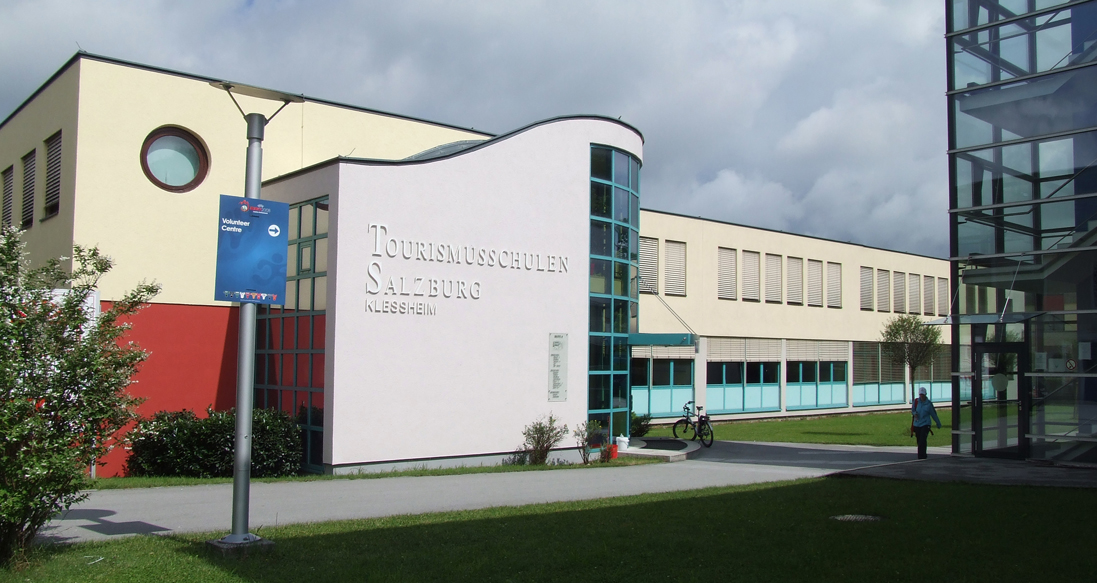 Salzburg School for Tourism in Kleßheim, municipality of Wals-Siezenheim, state of Salzburg, Austria. During the European Football Championship 2008 the building was housing the local “Volunteer Center”.